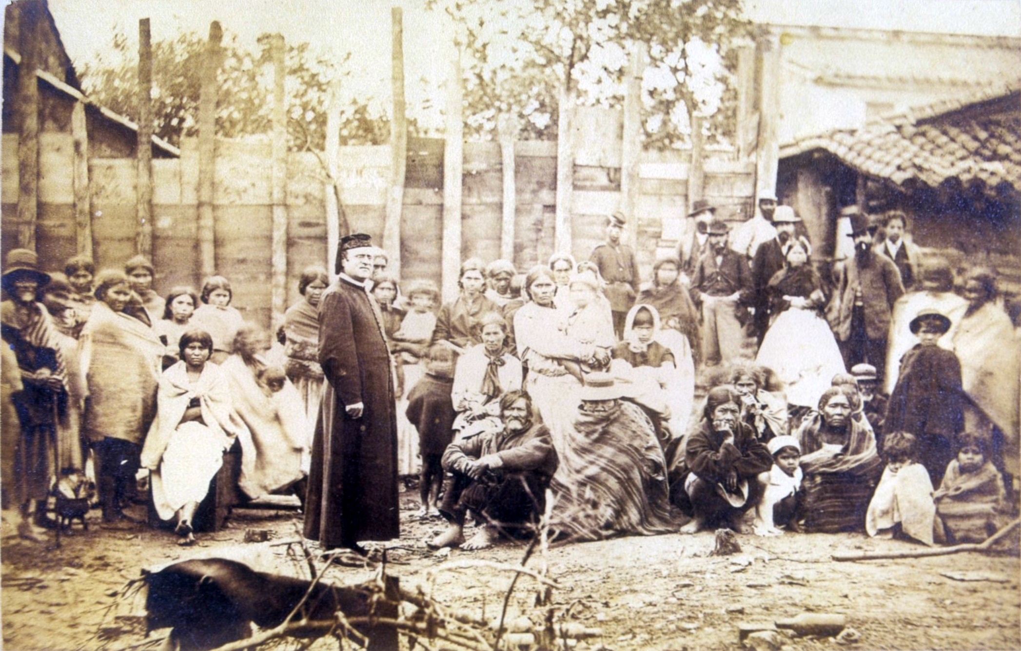 Paraguayan refugees from the town of San Pedro. On the foreground is a Brazilian priest (wearing glasses). The photograph was probably taken in the hospital of the Brazilian navy in Asunción